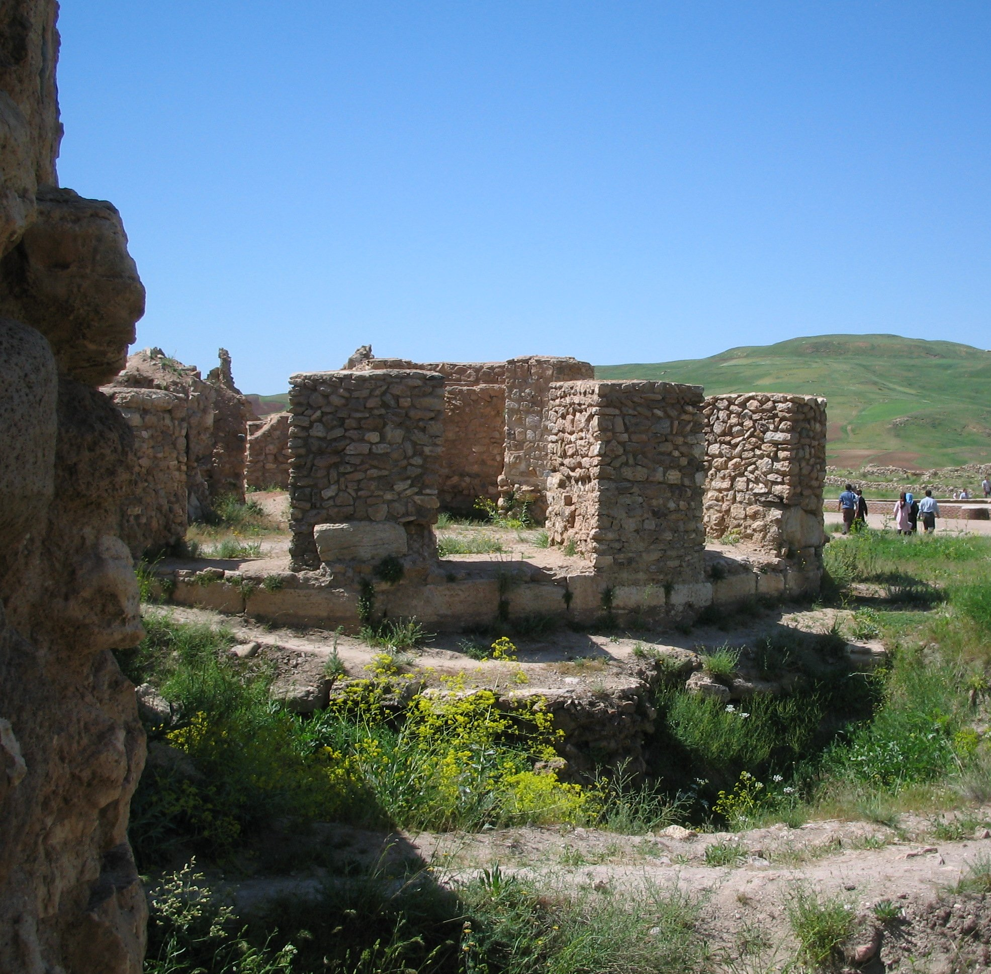 The Throne of Solomon, Takab, Iran (تخت سلیمان)